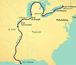 Route of Lasalle